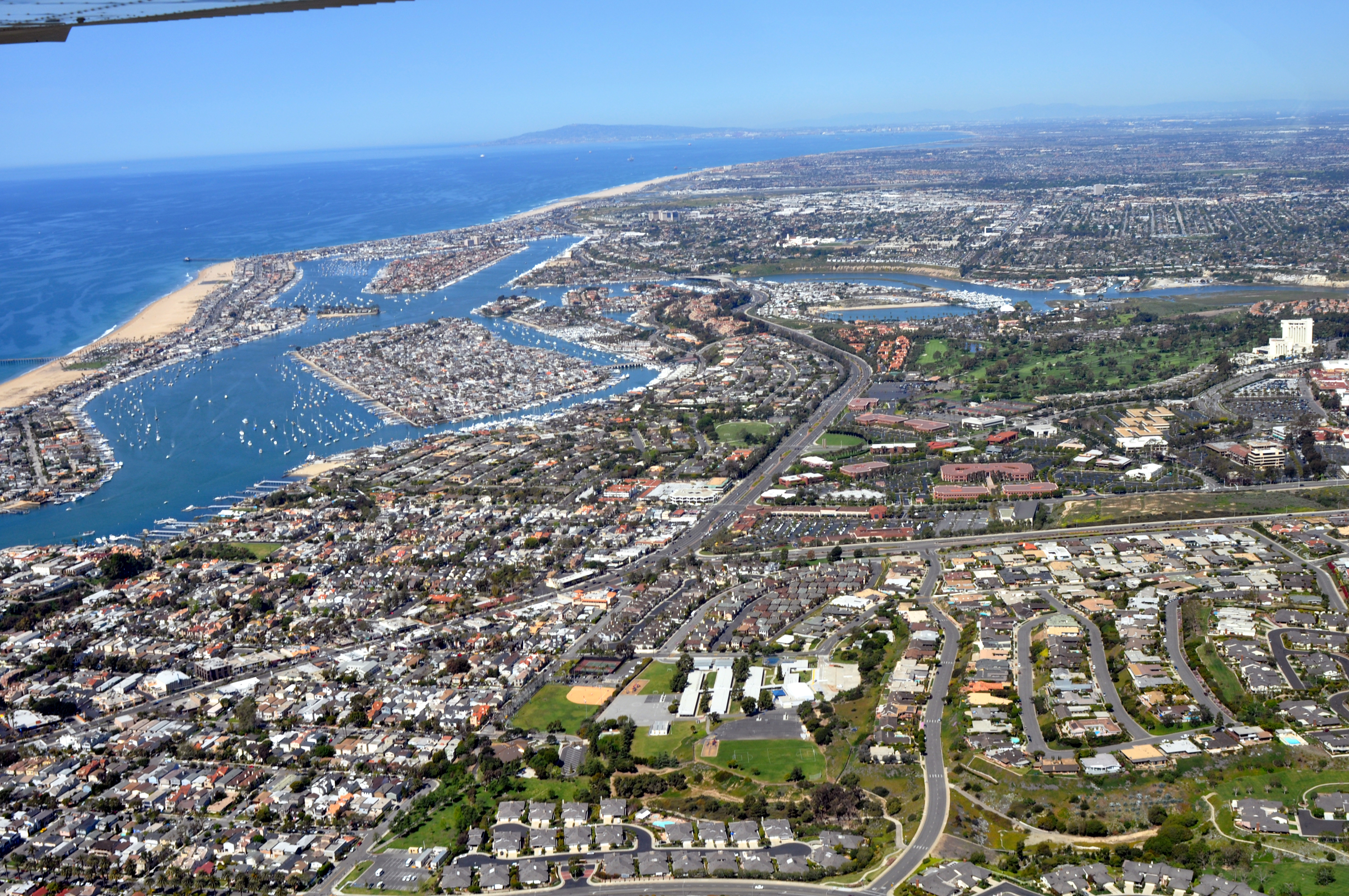 Newport Beach California on a crisp spring morning. Aerial photo D. Ramey Logan, please provide credit if used in ANY print or web work outside Wikipedia. Credit to read Photo: D. Ramey Logan ------------------ thanks